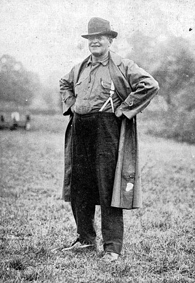 University of Pittsburgh head football coach "Pop" Warner during the 10-0 1917 season. Photo from the 1919 Owl student yearbook.